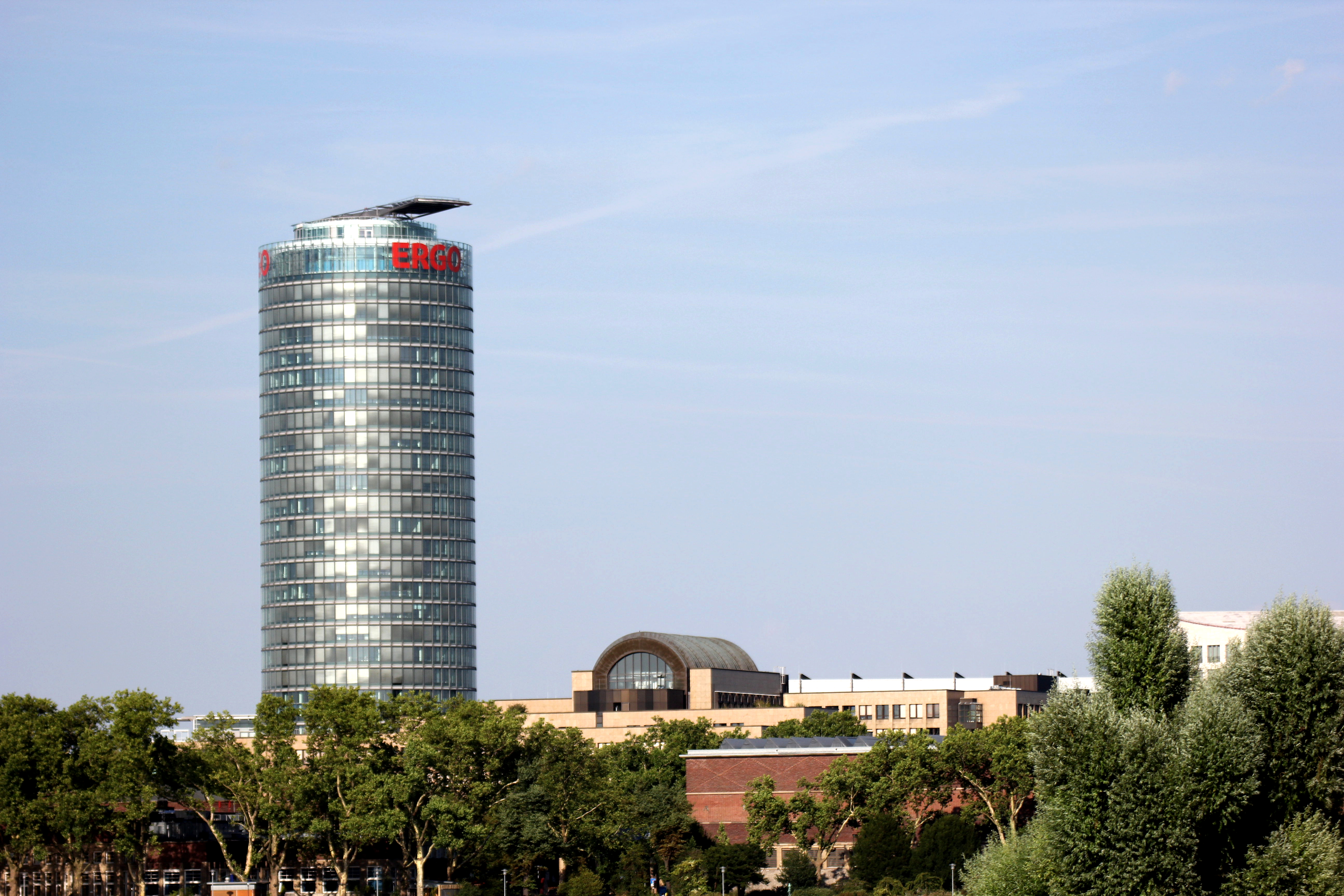 The ERGO Insurance Group Building.